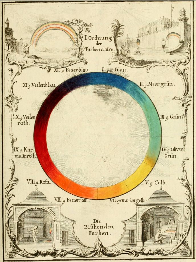 Page 15 of Ignaz Schiffermüllers Versuch eines Farbensystems, 1772